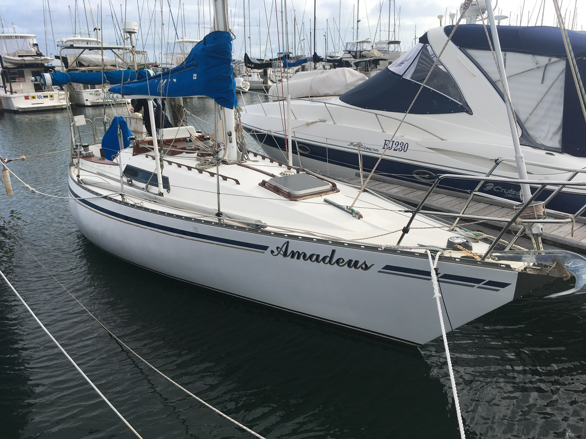 Amadeus, A UFO 34 yacht, built in Western Australia